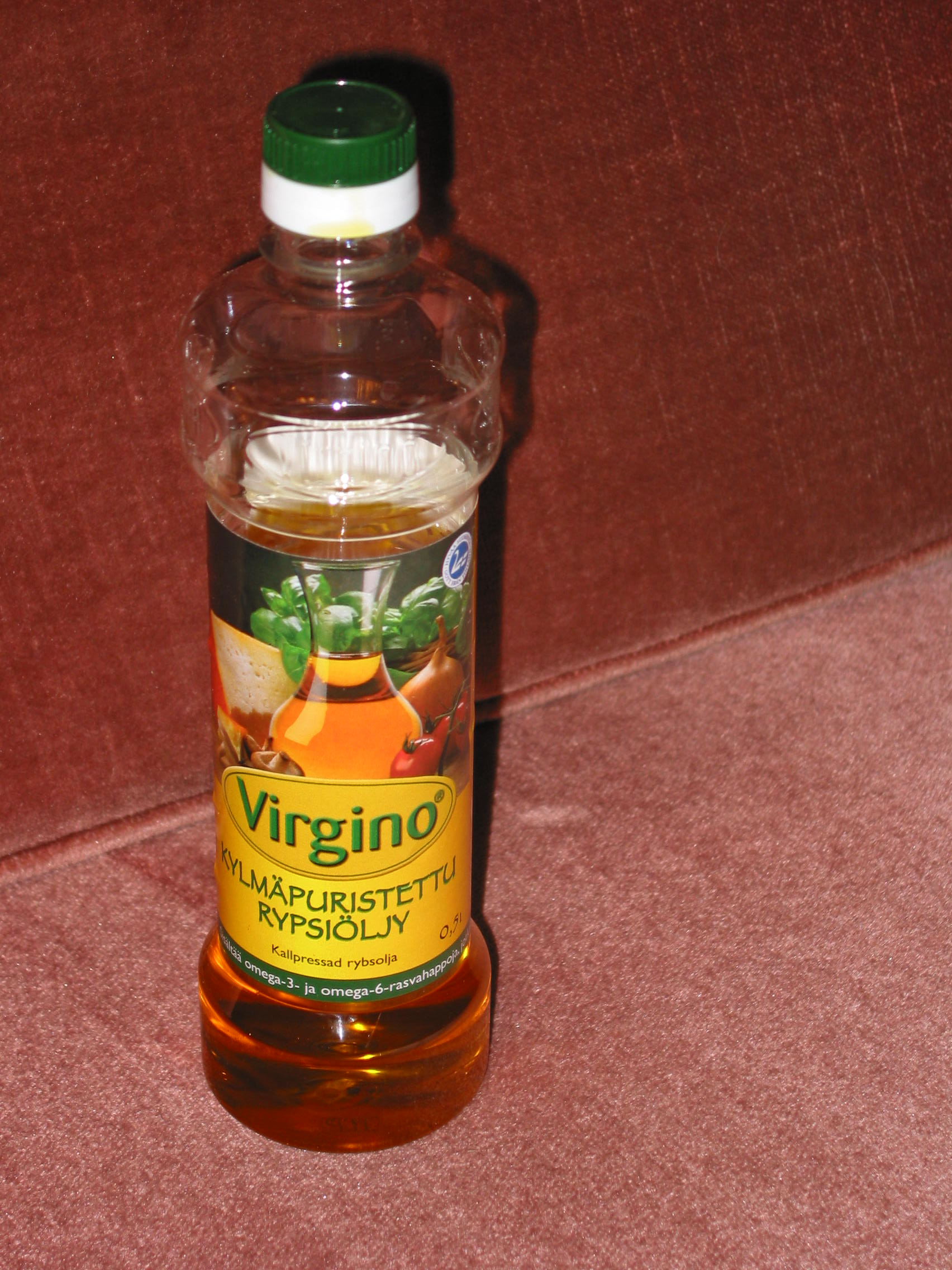 Cold pressed turnip rape oil / bird rape oil (vegetable oil of Brassica rapa subsp. oleifera).